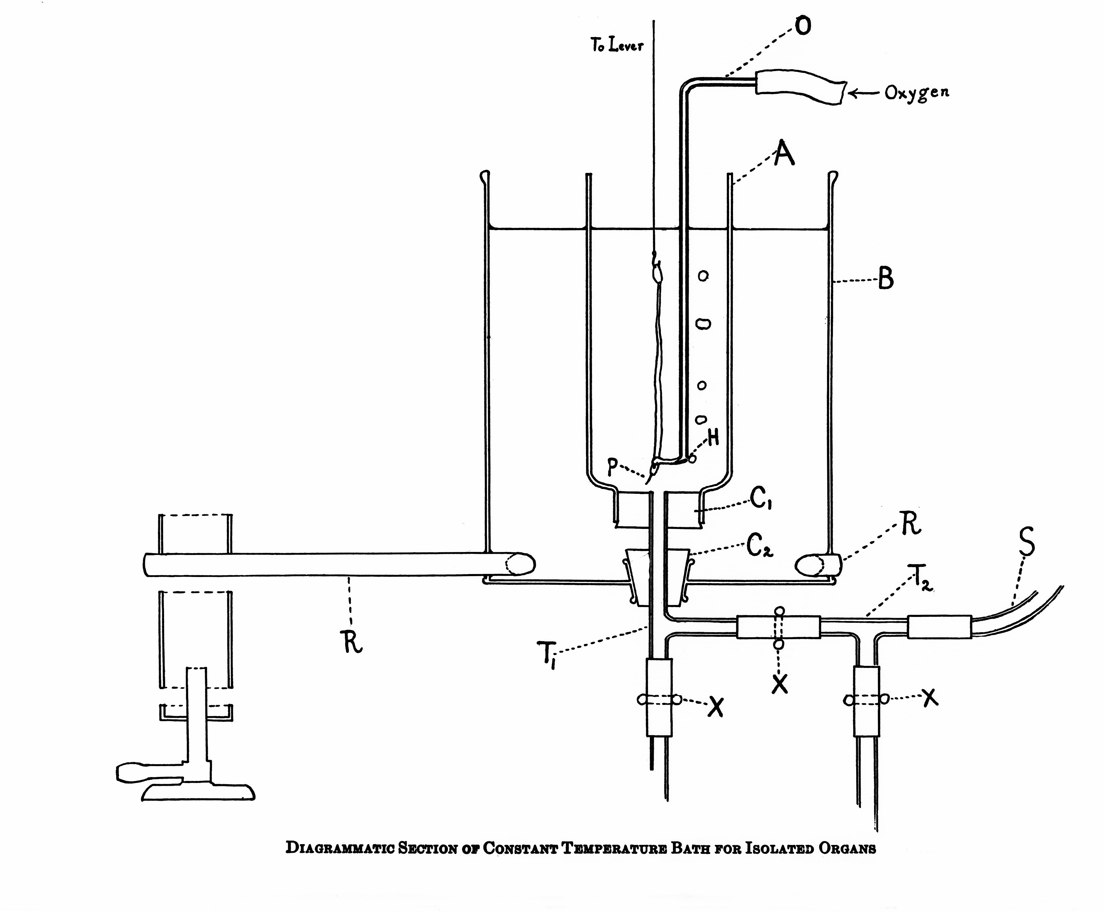 Diagrammatic section used for testing the activity of samples of Pituitary extracts, constant temperature bath for isolated organs General Collections Keywords: Physiology; Henry Hallett Dale